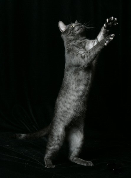 Mu ARAE's Nuage Dansant Black smoke Egyptian Mau